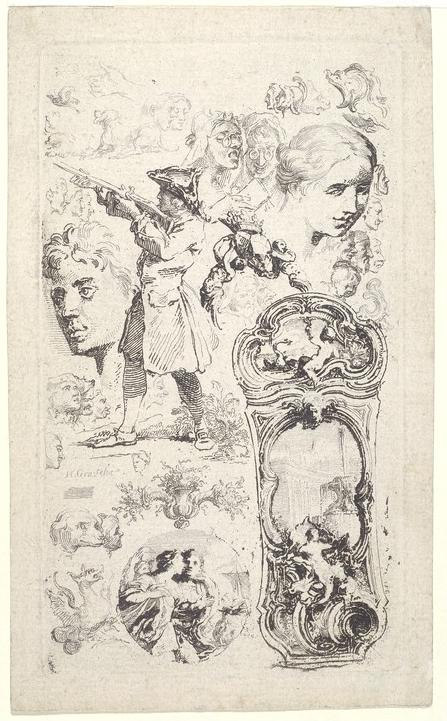 Etching, 1733-1744, Hubert Gravelot Museum no. E.2456-1932 Techniques - Etching, ink on paper Place - London, England Dimensions - Height 18 cm (paper), Width 11 cm (paper) Object Type - This print is an etching, produced by biting lines in a metal plate with acid to hold ink. The lines on the plate are filled with ink which is then printed onto paper. Subjects Depicted - The printmaker Hubert Gravelot (1699-1773) made this etching look like a page from his sketchbook. He has achieved this by filling almost every inch of surface with a variety of unrelated subjects, drawn to different scales. This makes it look as though he had sketched them haphazardly as he came across them. Because this is a print, not a drawing, it is clear that the whole effect was carefully contrived. The subjects reflect Gravelot's many talents as a designer, illustrator and occasional figurative painter. They include a full-length figure of a hunter taking aim, a gun-dog going after a bird, and heads and profiles of men, women and children. In the lower right-hand corner, is a design for an 'etui', a small box for items such as needles, scissors and thimble, which was carried in the pocket, or hung on a chain from the waist. Materials & Making - Some of the lines in this etching are lighter than others. This mimics the different intensity of the lines in a drawing. To achieve this effect in an etching, Gravelot had to use a process called 'stopping out'. Some lines on the copper printing plate were made quite shallow and so held little ink, while others were exposed to the acid for longer, became deeper to hold more ink, and so printed darker as a result.